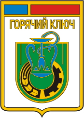 Goryachy Klyuch (Krasnodar krai), coat of arms (1976)